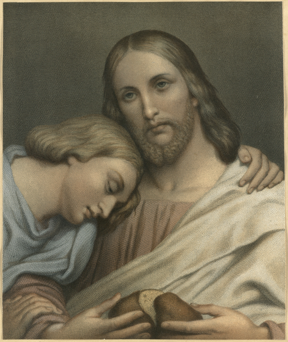 File name: 07_11_000927 Title: Christ and St. John Creator/Contributor: Scheffer, Ary, 1795-1858 (artist); L. Prang & Co. (publisher) Date issued: 1861-1897 (approximate) Copyright date: Physical description note: Genre: Chromolithographs; Portrait prints; Group portraits Notes: Title supplied by cataloger. Location: Boston Public Library, Print Department Rights: No known restrictions Flickr data on 2011-08-06: Camera: Sinar AG Sinarback 54 FW, Sinar m License: CC BY 2.0 User: Boston Public Library BPL